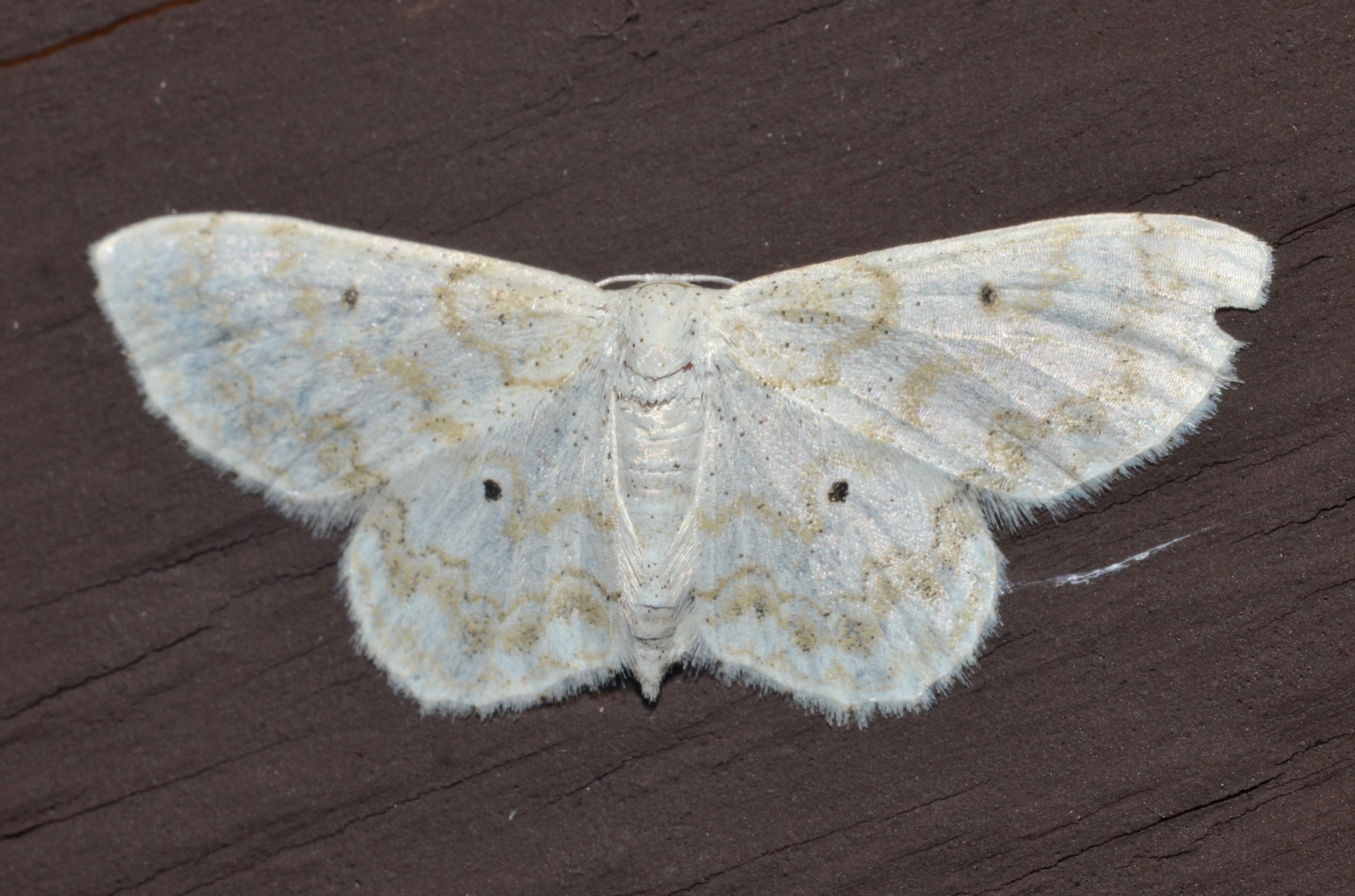 Cuivre River State Park 7/18/15